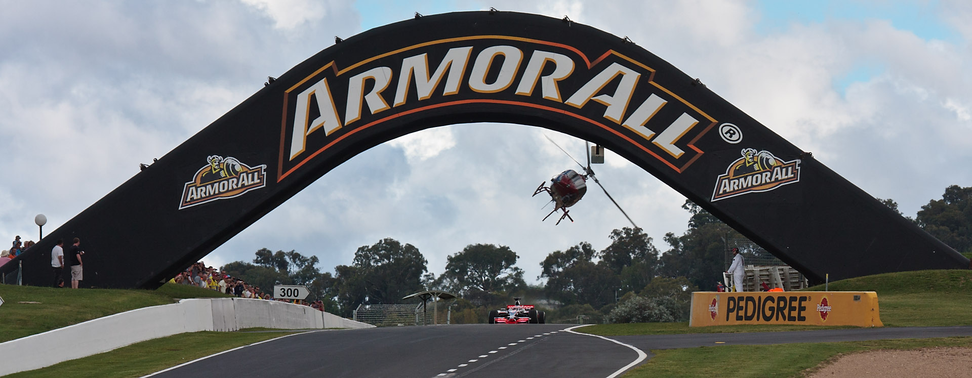 Jenson Button doing a lap in a McLaren Mercedes Formula 1 on the Mount Panorama Circuit.